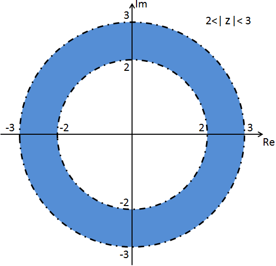 The annulus in wich we express a certain function as a Laurentseries.